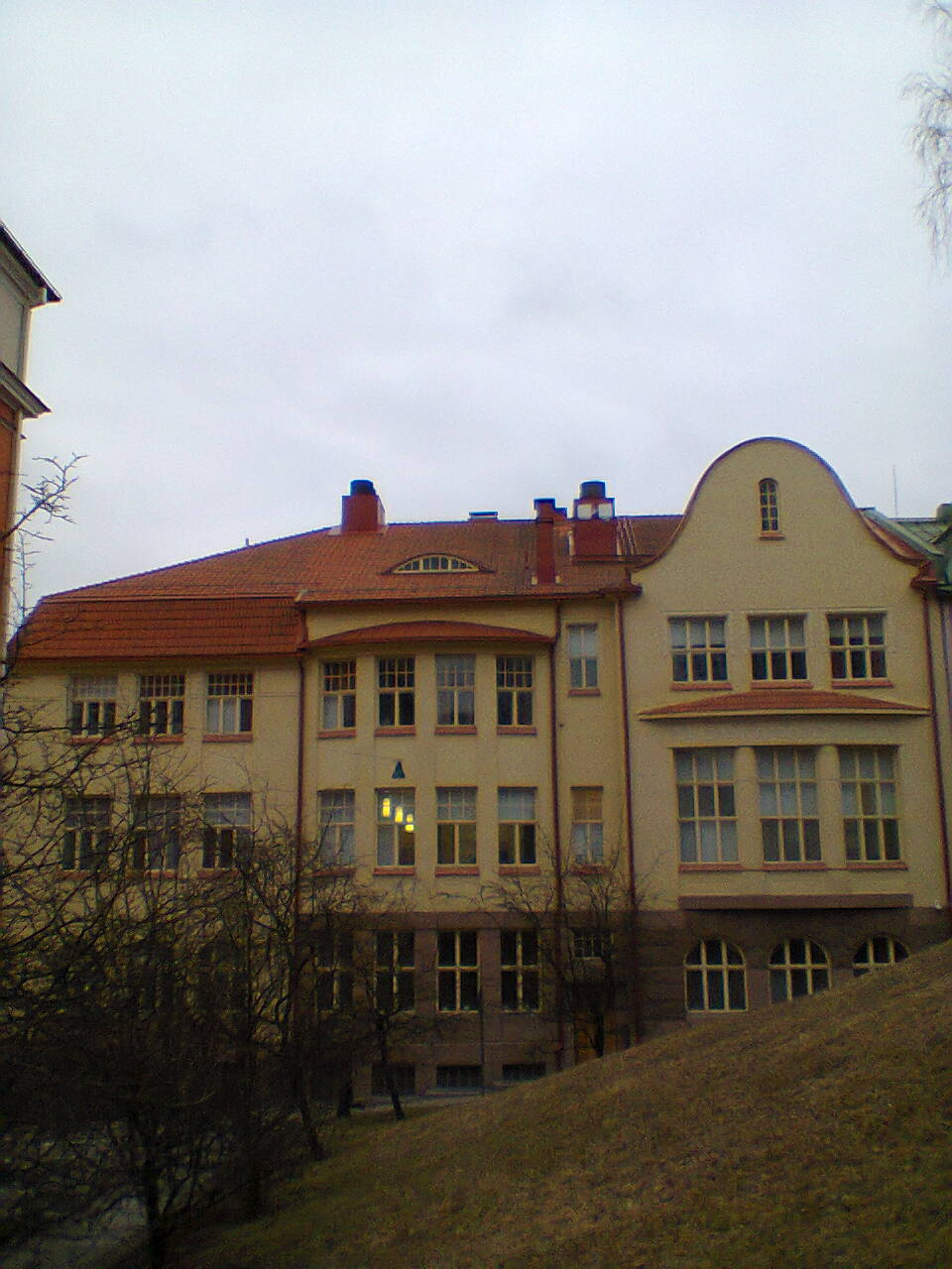 Torninkatu 4, Turku, Finland. Svenska Samskolan's building from 1910. Architect: Olivia Mathilda "Wivi" Lönn.